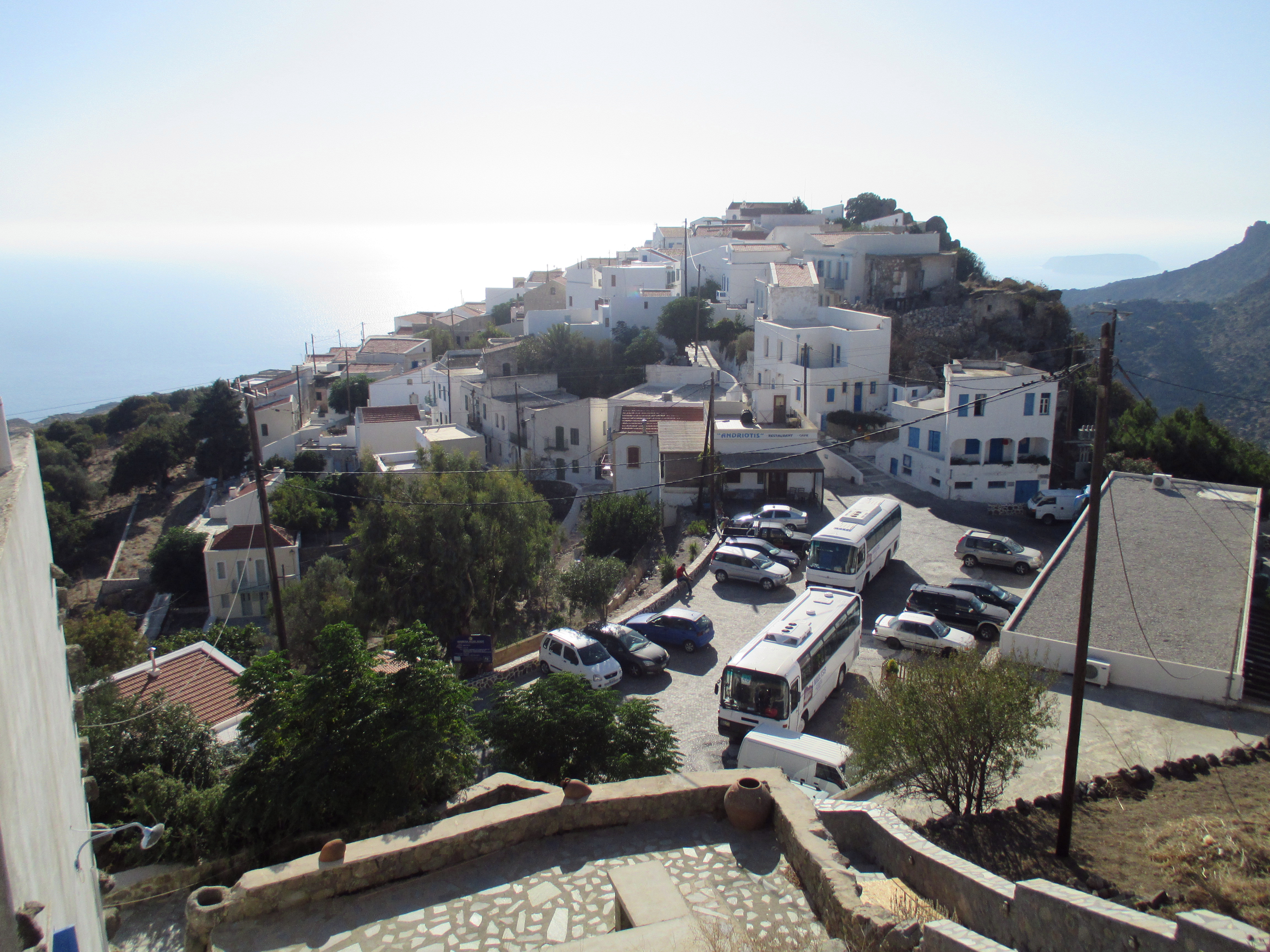 Nikia village, Nisyros island, Greece.